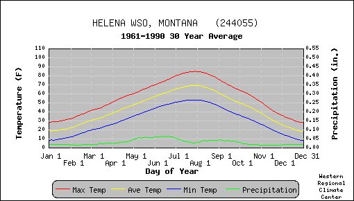 HELENA, MONTANA 1961 - 1990 Temperature and Precipitation Max. Temp. is the average of all daily maximum temperatures recorded for the day of the year between the years 1961 and 1990. Ave. Temp. is the average of all daily average temperatures recorded for the day of the year between the years 1961 and 1990. Min. Temp. is the average of all daily minimum temperatures recorded for the day of the year between the years 1961 and 1990. Precipitation is the average of all daily total precipitation recorded for the day of the year between the years 1961 and 1990.